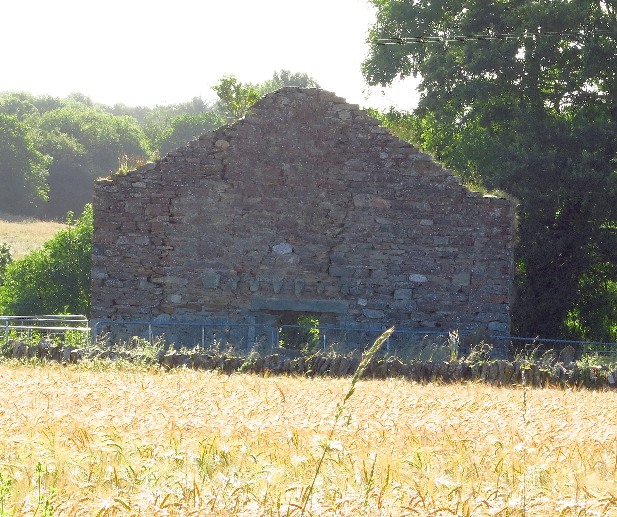 Clone Church - County Wexford, Ireland.